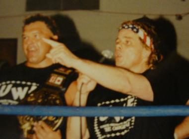 Bruce Hart and Chris Chavis after UCW Championship Win